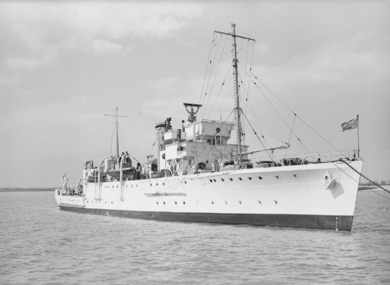 Photograph of British of British Halcyon class minesweeper HMS Franklin, at a buoy on the River Medway.